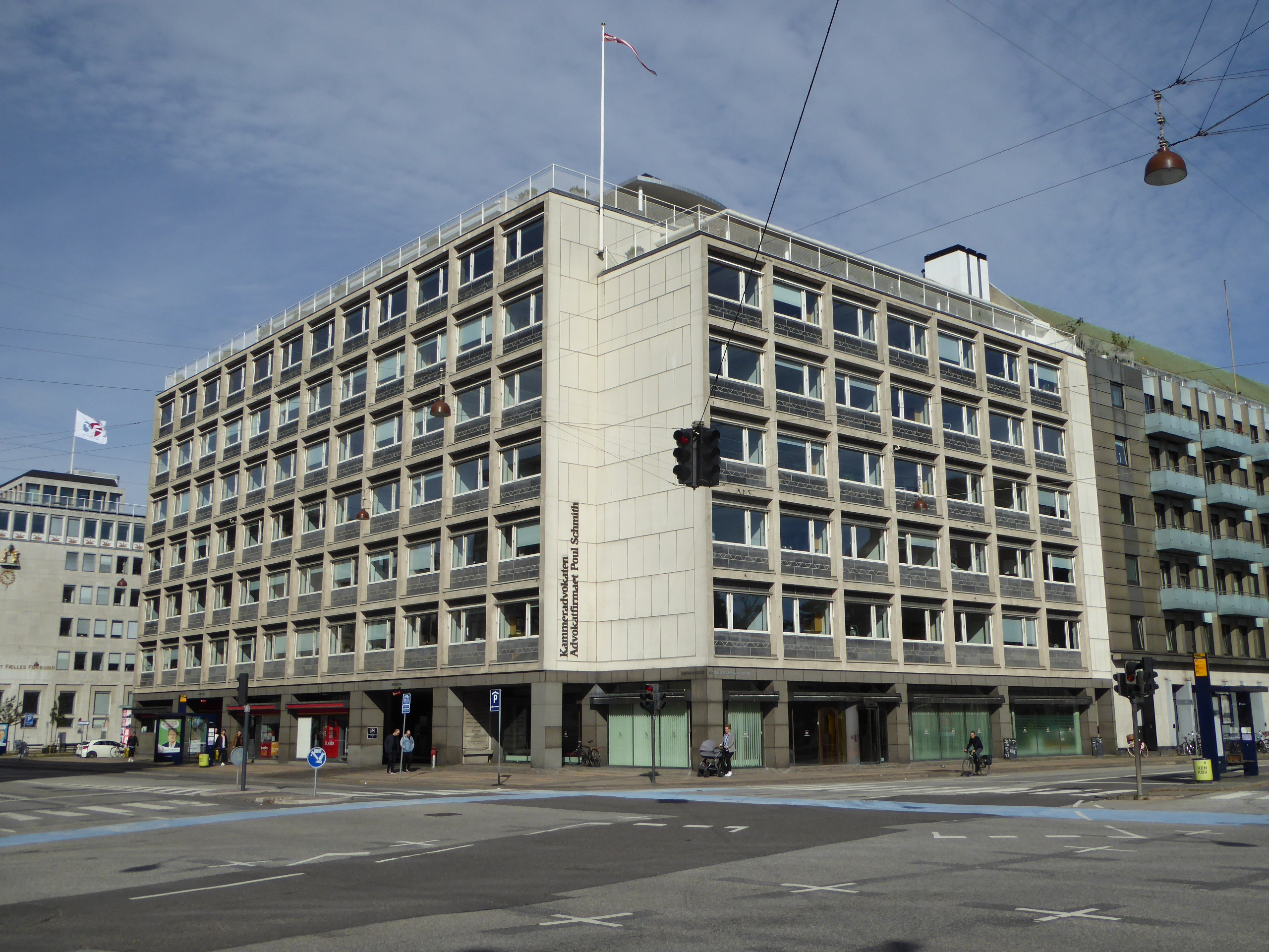 The office building Shellhuset at the corner of Kampmannsgade and Vester Farimagsgade in Vesterbro in Copenhagen. The lawyer firm of the Danish State, Kammeradvokaten, is situated here.